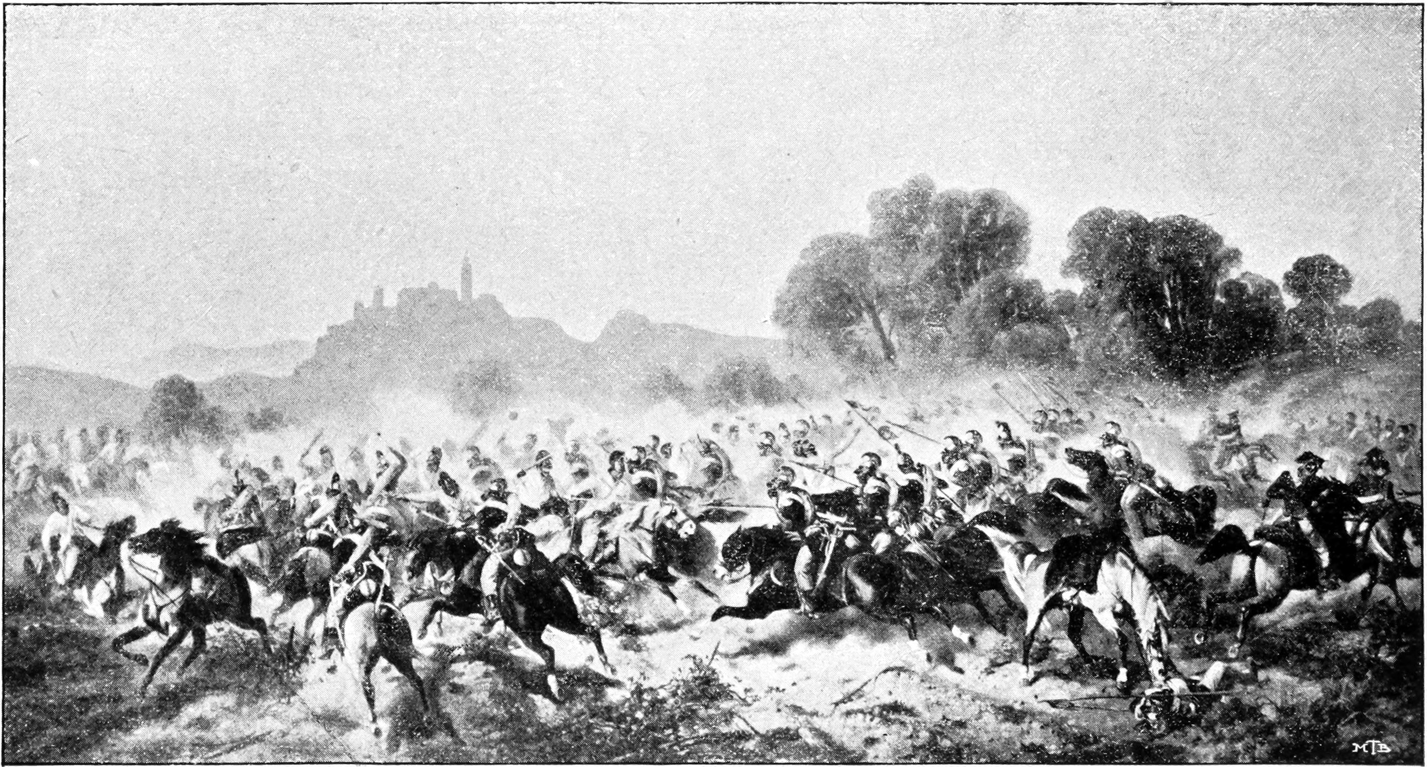 Image from book: Leopoldo Pullè, Patria Esercito Re, Ulrico Hoepli, Milan, 1908. - Volta Mantovana, 1848 — Cavalry charge of Genova Cavalleria.